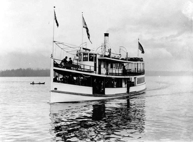 L.T. Haas steamboat running on Lake Washington, ca 1911.